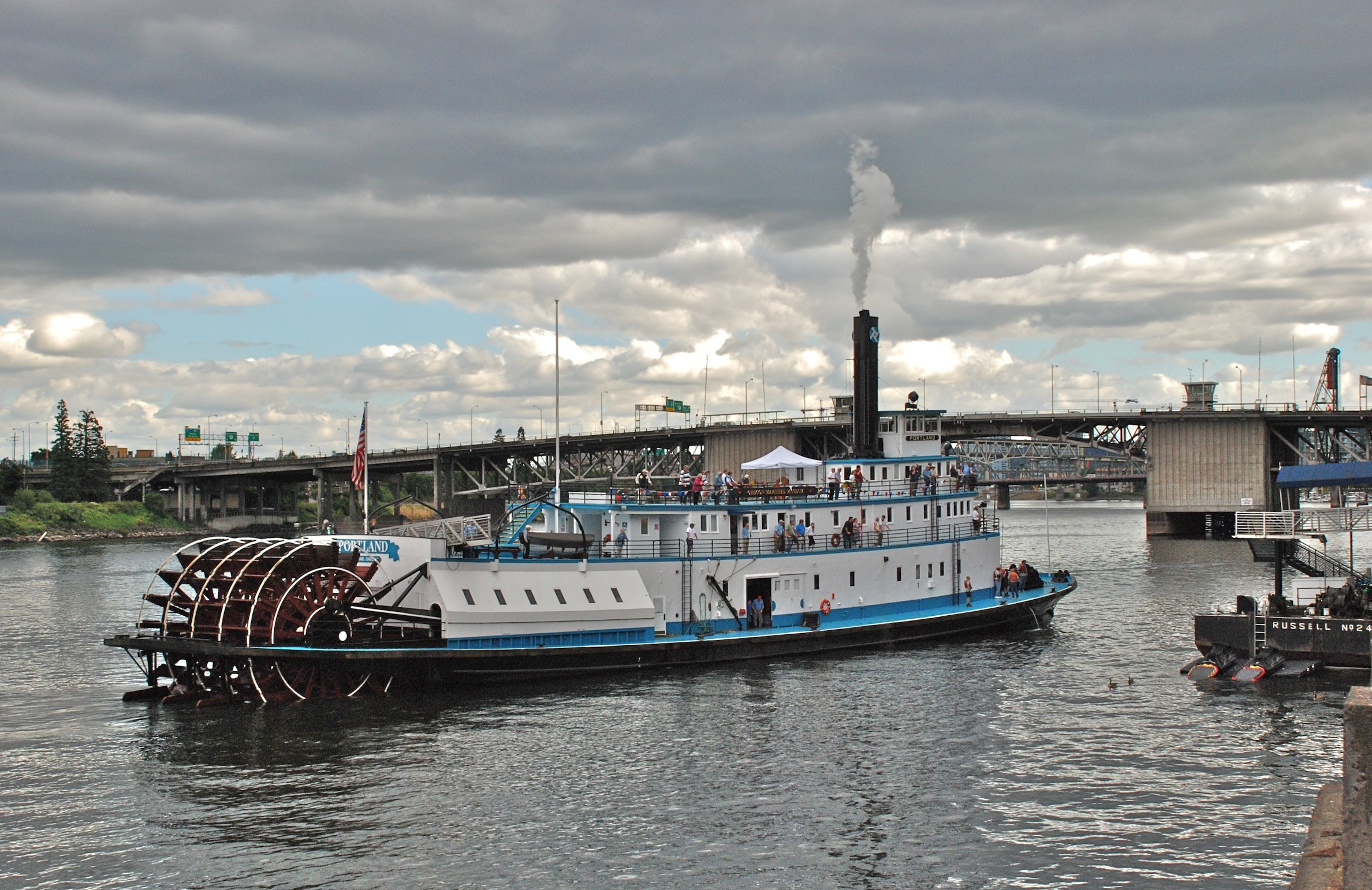 The historic steam tug Portland, a 1947 sternwheeler based in Portland, Oregon, United States, is listed on the U.S. National Register of Historic Places (NRHP). It serves as the home of the Oregon Maritime Museum, but is fully operable and occasionally makes excursions. It is pictured in Portland at the end of a cruise to St. Helens, Oregon, approaching its dock at Tom McCall Waterfront Park, in downtown Portland. The Morrison Bridge is in the background.